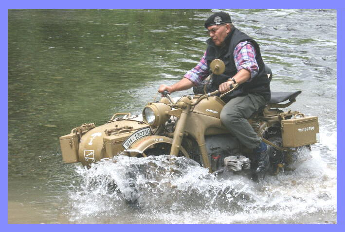 Zündapp Ks 750 crosing a river in the Pyrenäes - Spain , Driver H-P Hommes